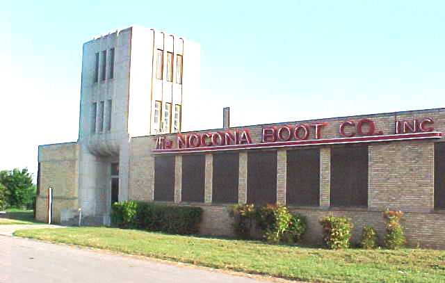 This is a .JPG of the Nocona Boot Company taken after the company was closed in Nocona, TX.